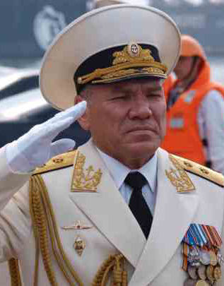 Командующий Балтийским флотом вице-адмирал Кравчук Виктор Петрович